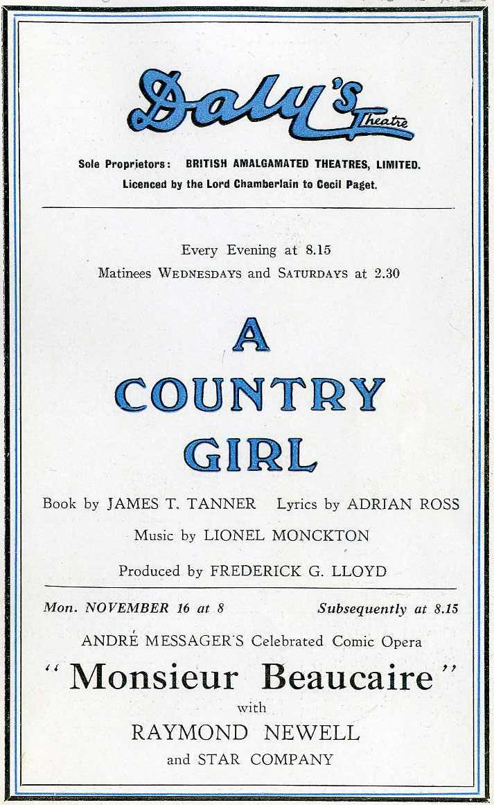 Programme from the 1931 revival of Lionel Monckton's A Country Girl, starring Dorothy Ward.